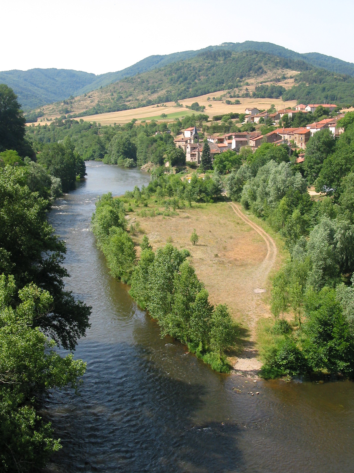 Villeneuve-d'Allier (Haute-Loire - France), the Allier River and the village.